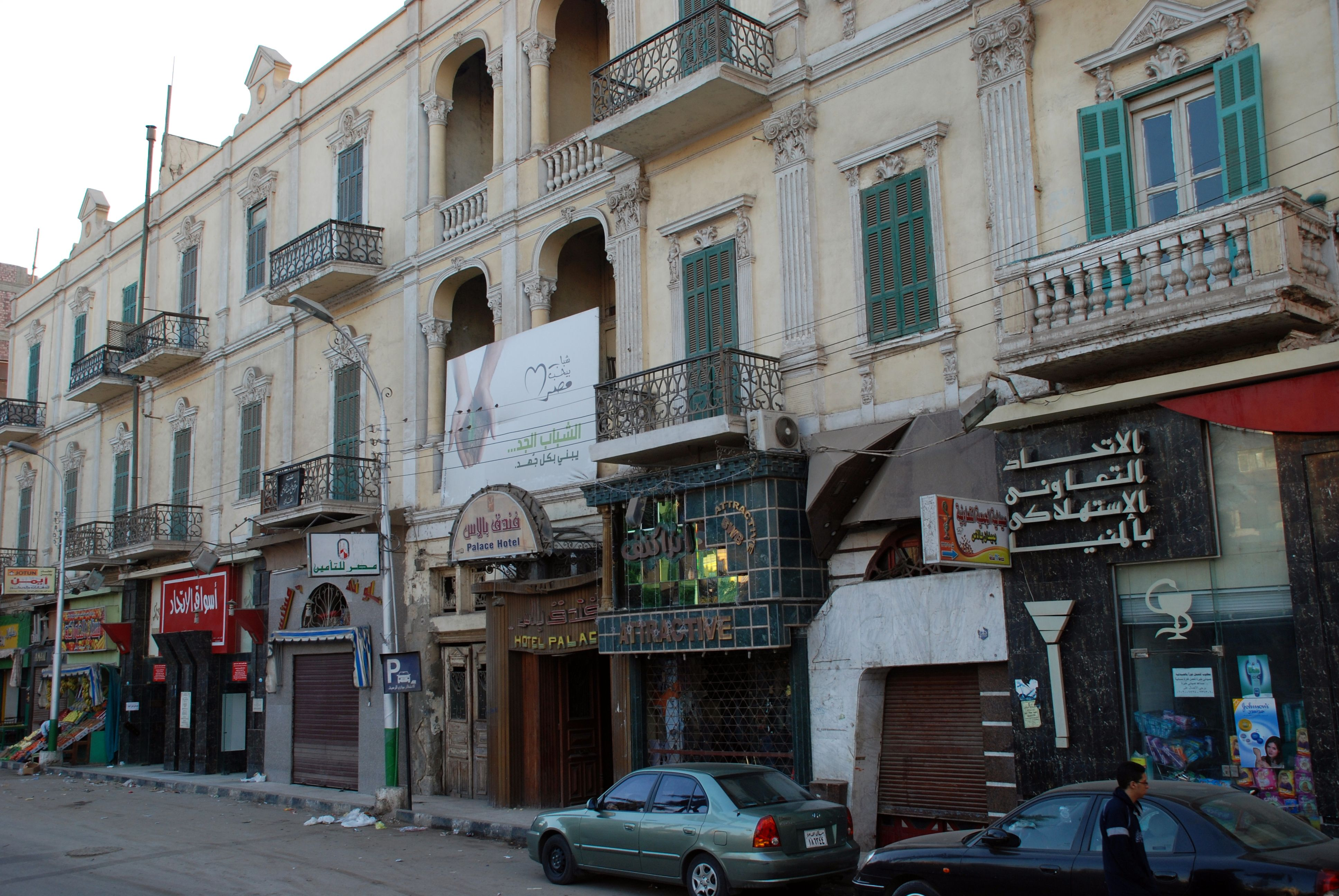 Hotel Palace at Midan Tahrir - Minya, Egypt.